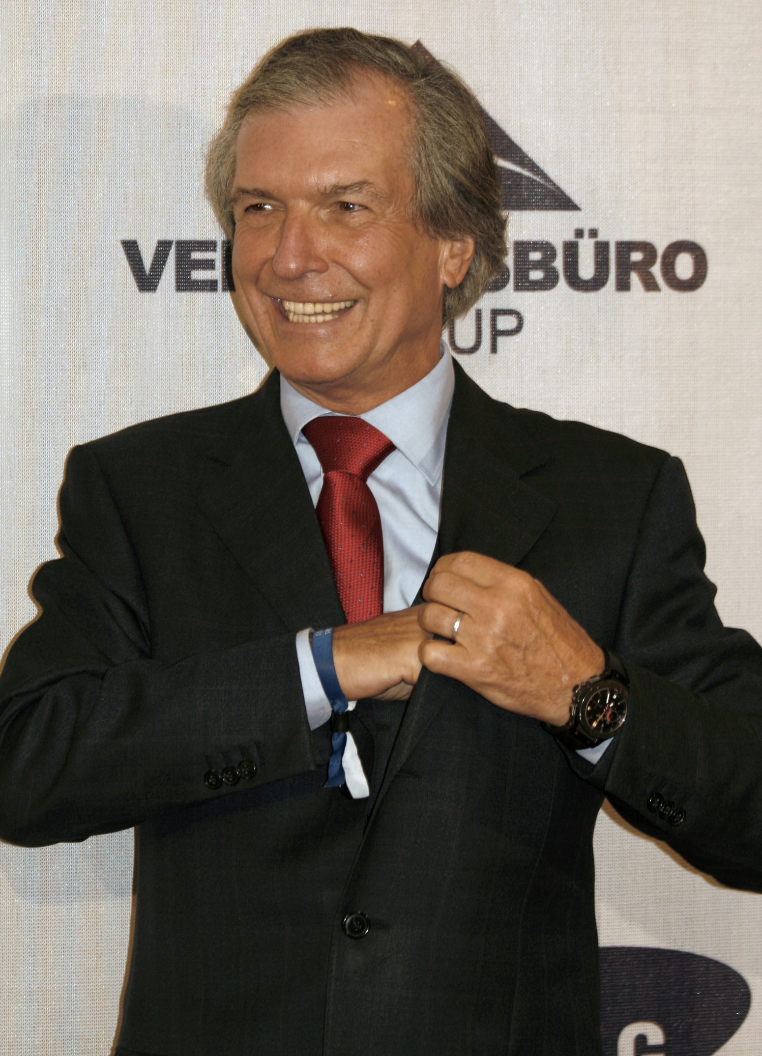 Austrian sports functionary Friedrich Stickler at the Galanacht des Sports (Gala-Night of Sports), where the Austrian Sportspersonalities of the Year 2008 were honoured.